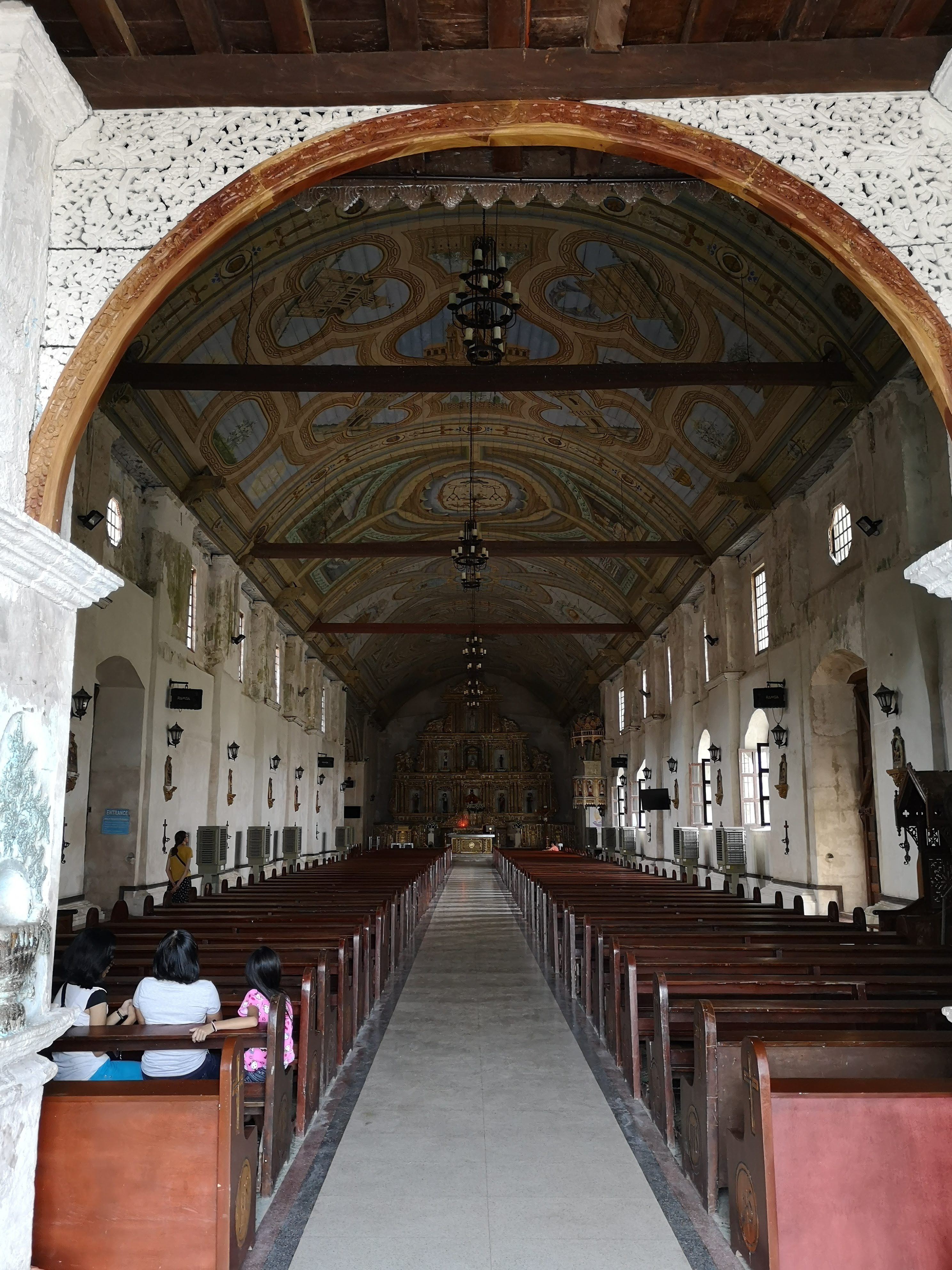 La nef de l'église de Boljoon